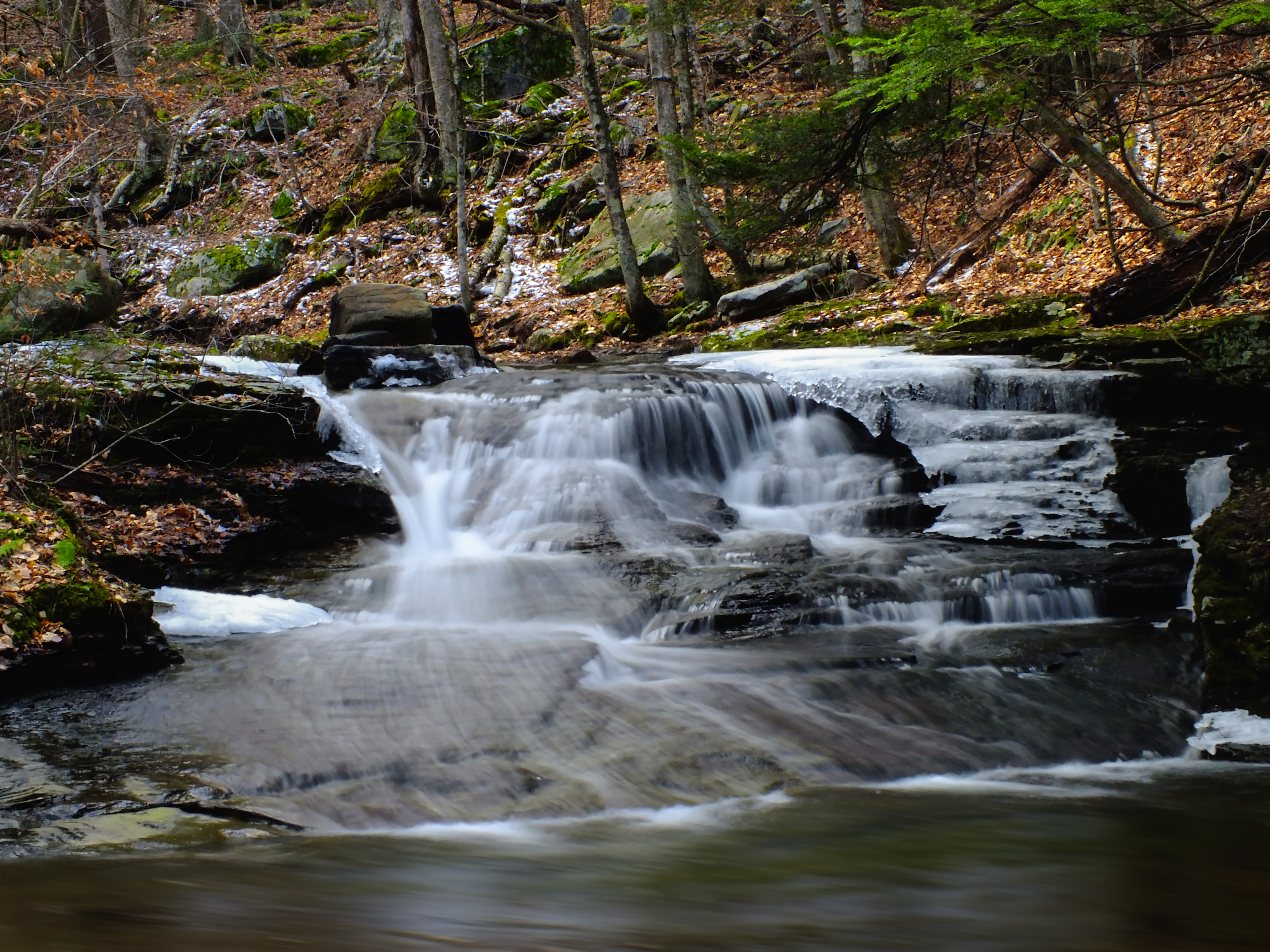 World's End State Park, Sullivan County.